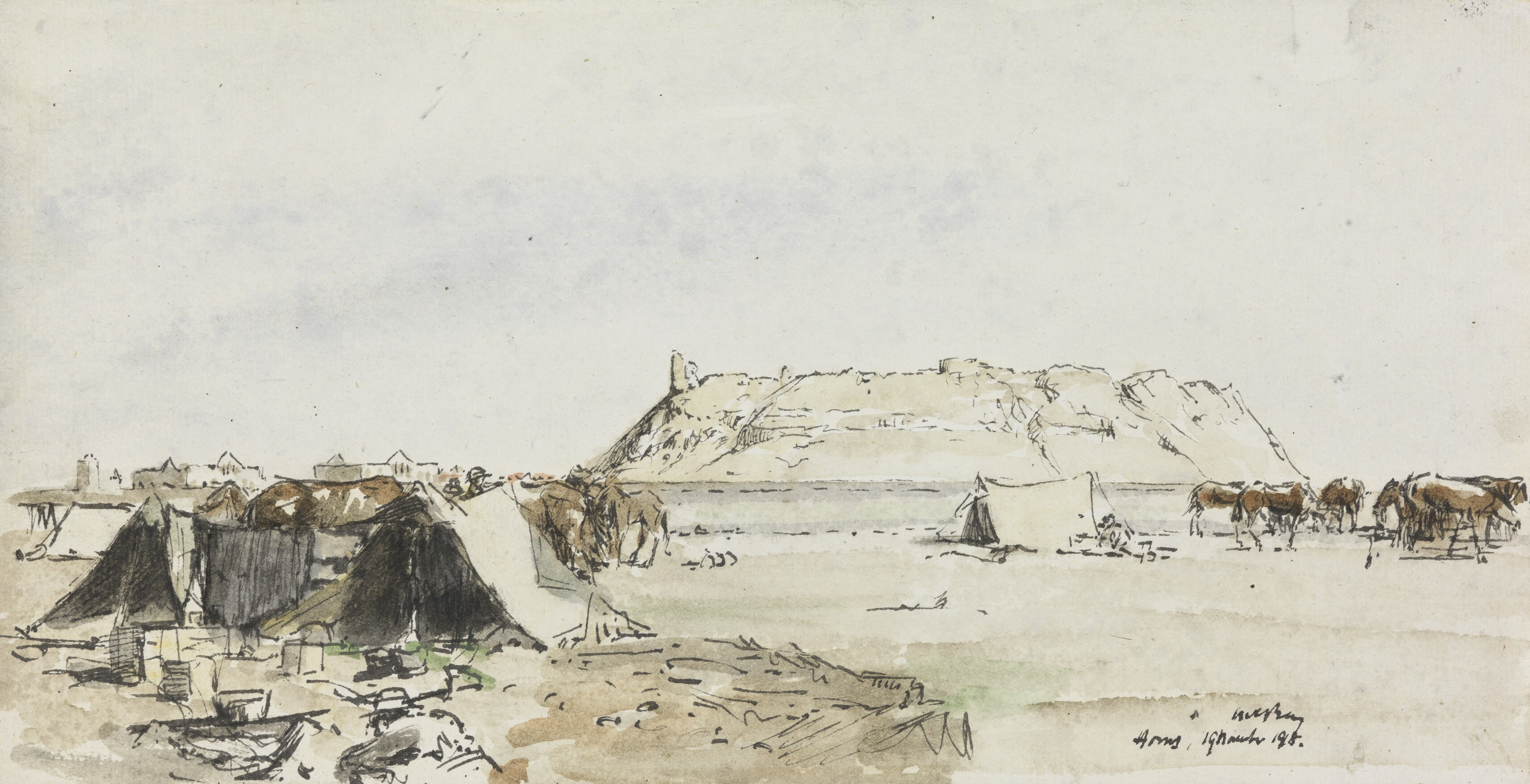 The Citadel of Homs. Homs, a desert town between Damascus and Aleppo. the Australian Light Horse are bivouacked in the foreground. image: in the foreground is a camp of the Australian Light Horse, with horses grazing amongst bivouac tents and equipment. In the background is the large ancient cital of Homs, with buildings of the town to the left.